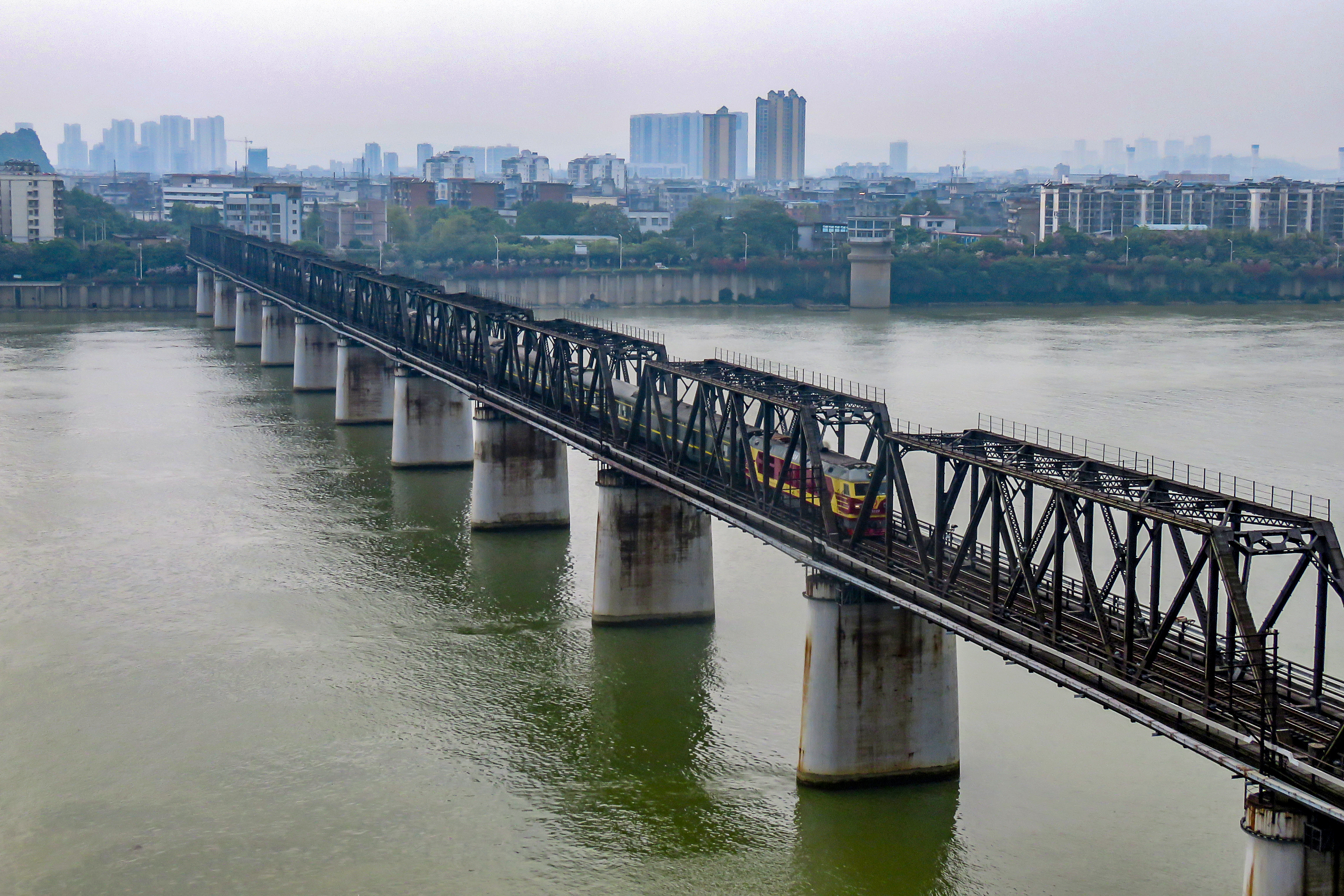 K316 from Nanning to Xi'an - using the old railway between Nanning and Guilin.